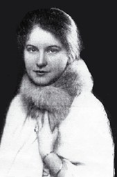 Edit von Coler, photo from her NSDAP party membership book